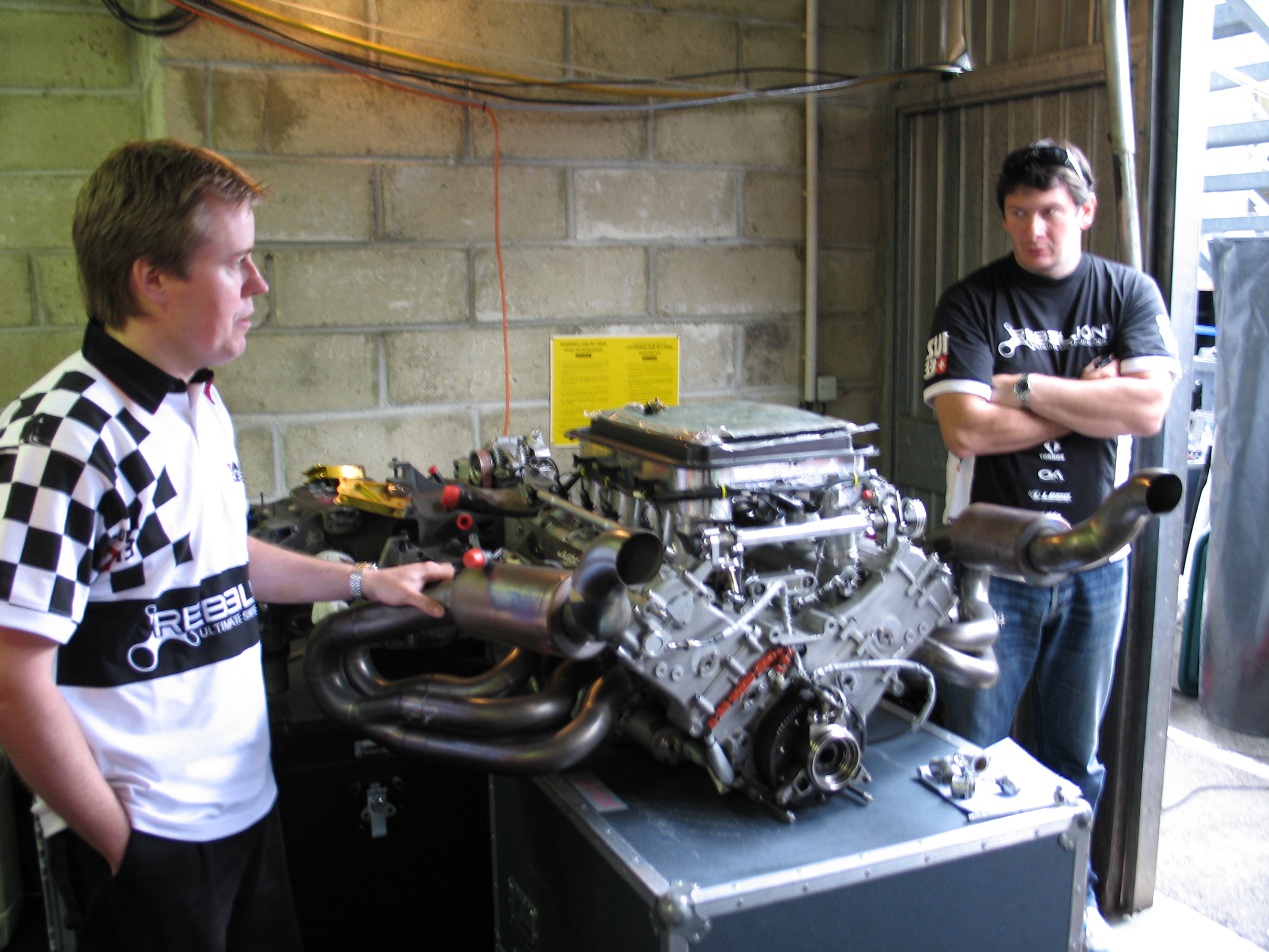 A Judd DB V8 from the Speedy Racing Team Sebah entry at the 2009 24 Hours of Le Mans.